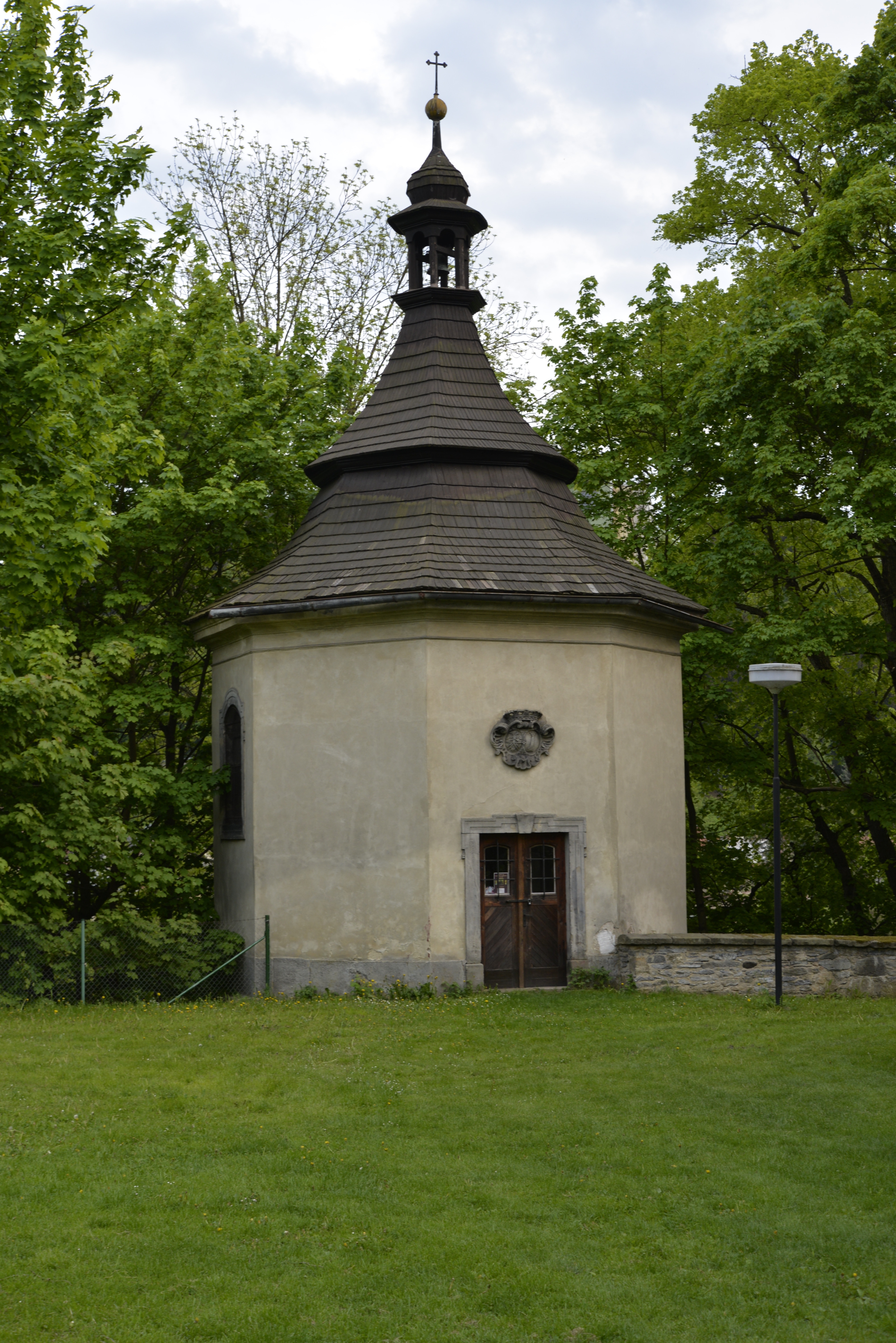 Charnel House at Church of Saint James the Greater, Malé náměstí, Františka Balatky 132, Železný Brod.